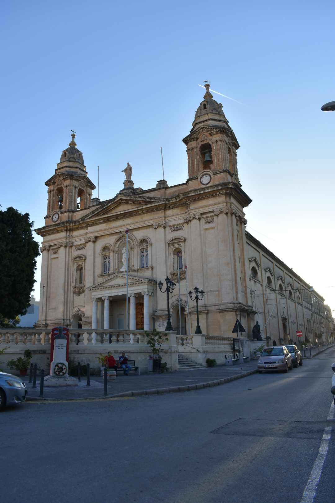 Marsa